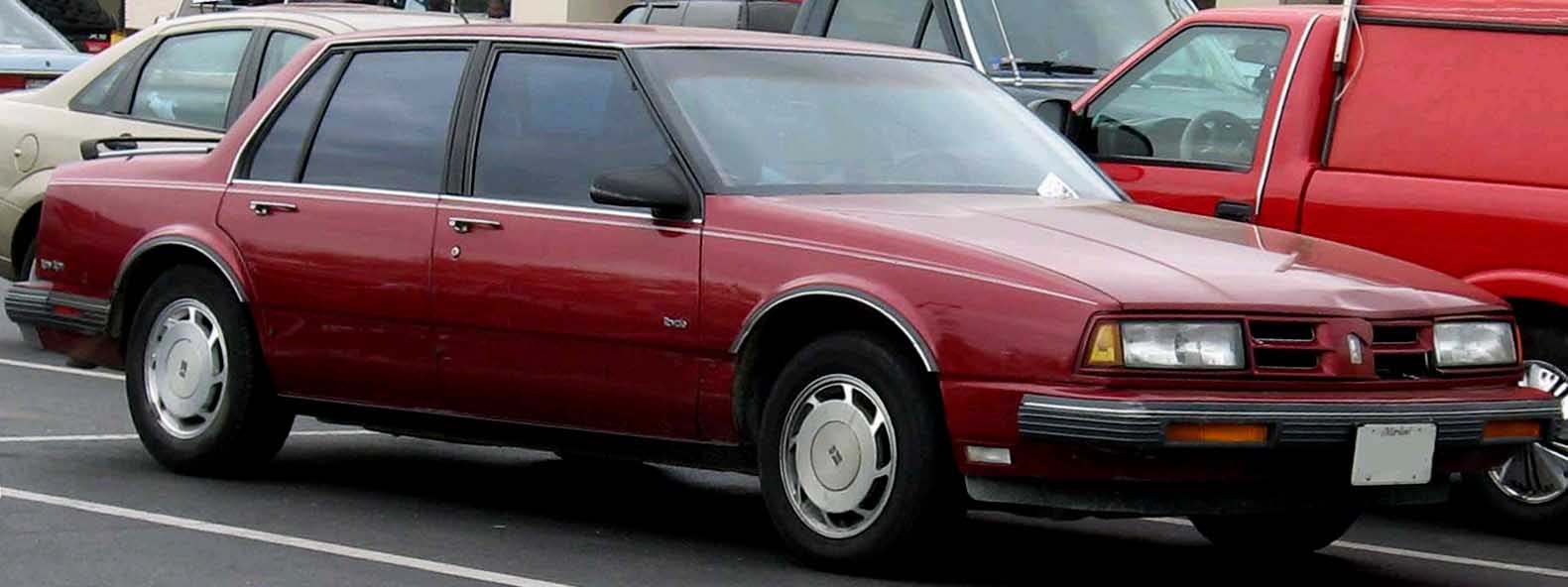 1990-1991 Oldsmobile Eighty-Eight Royale photographed in USA.